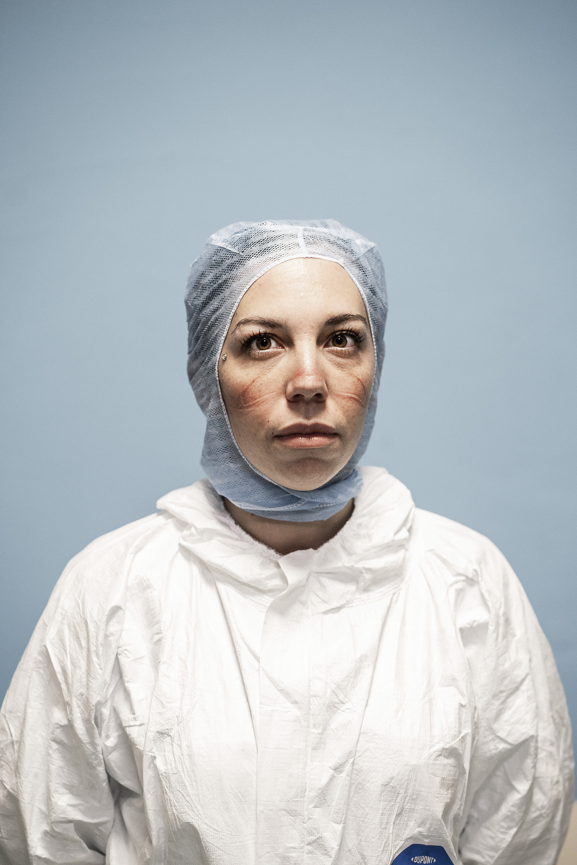 These are the doctors and nurses of the San Salvatore Hospital in Pesaro, Italy, the city of my birth and where I once again reside, which from day one has sadly been at the top of the COVID-19 contagion and death charts. I photographed them at the end of their shifts—twelve hours without a break during their fight in an unequal war. In the quiet moments in front of my camera, these embattled individuals are in a state of total abandon, victims of an exhaustion that eats away at the body and the mind, a breathlessness that renders one disoriented, detached from time and space. They would take off their masks, caps, and gloves in front of my lens, remaining motionless, looking for some sort of normalcy amid the hell they were living.